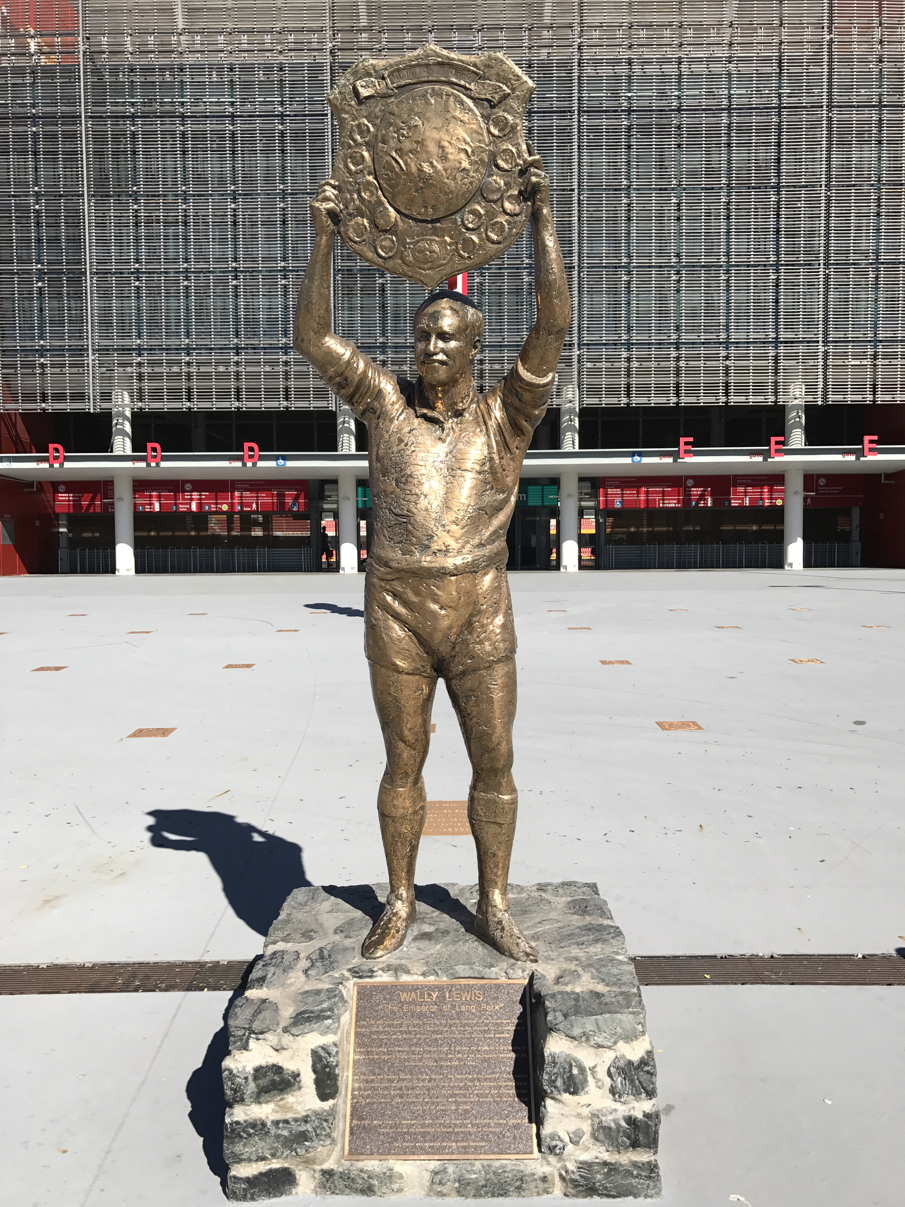 Statue of Wally Lewis at Lang Park, Milton, Brisbane, Queensland